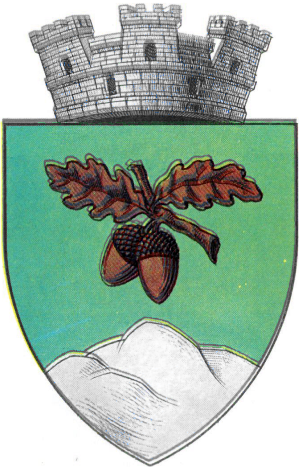 Interwar coat of arms of Huedin, Cluj County, Kingdom of Romania.